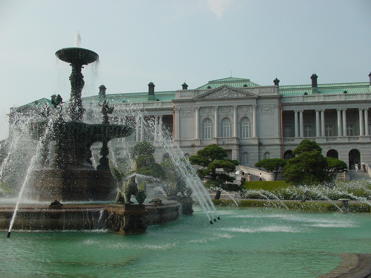 State Guest-House Akasaka Palace Main Yard